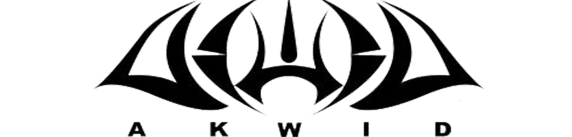 Official Akwid logo